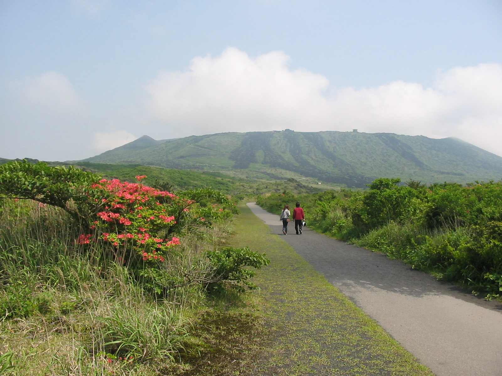 Volcanic peak of Mount Mt. Mihara on Izu Oshima, Izu Islands, Japan.